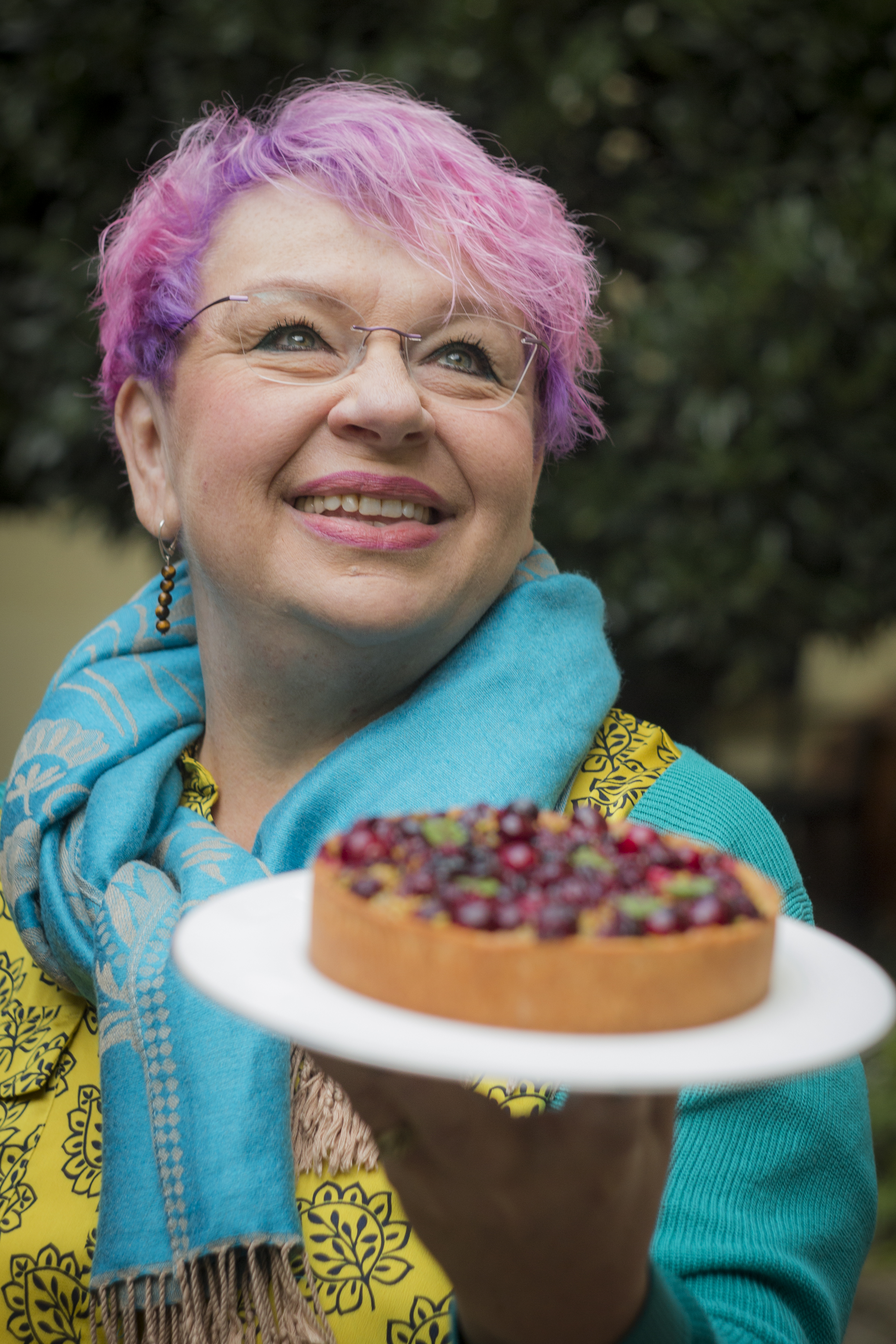 Mirka van Gils Slavíková standing with cranberries pie on street